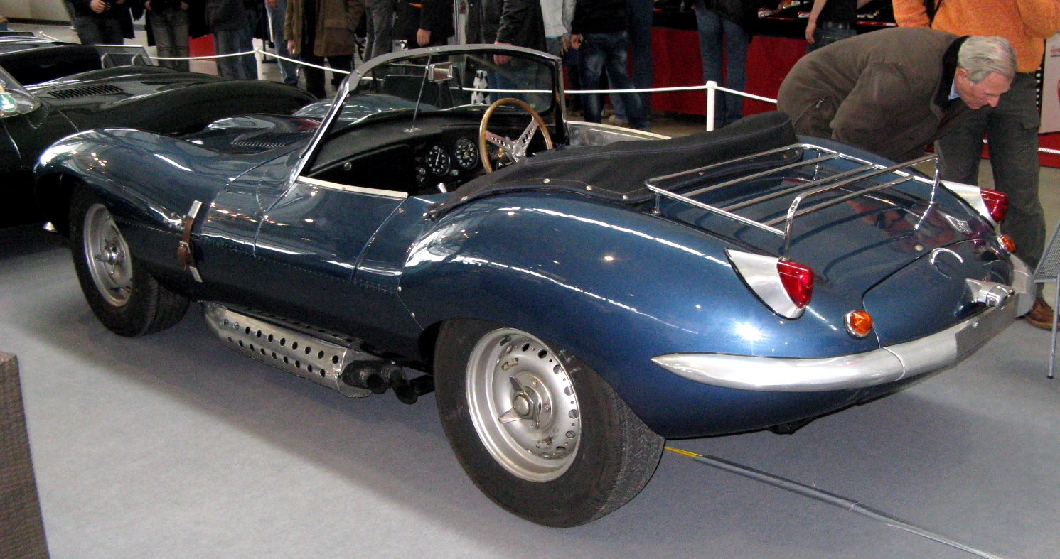 1965 Jaguar XK-SS Lynx